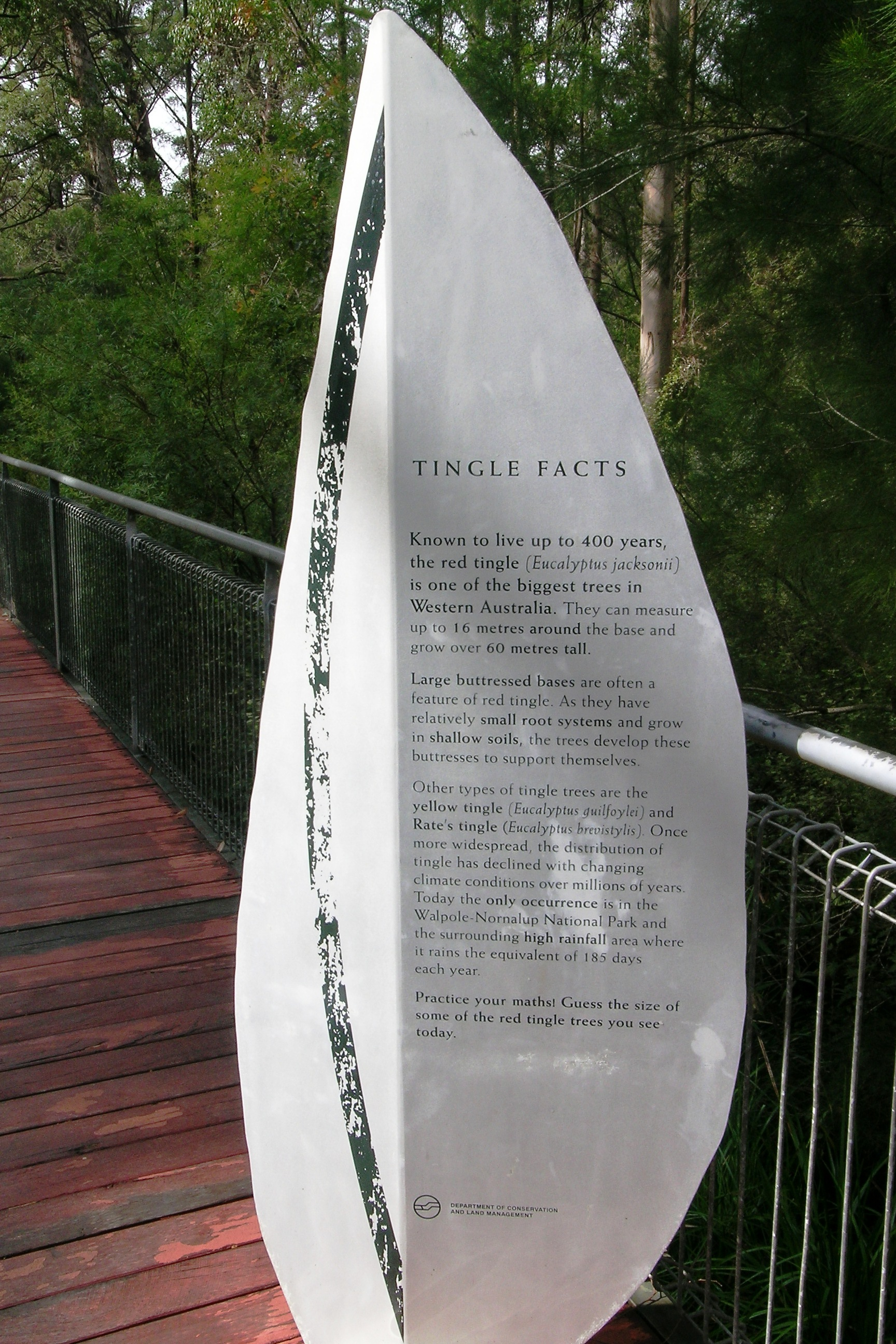 Red Tingle "fact sheet" from Walpole-Nornalup National Park